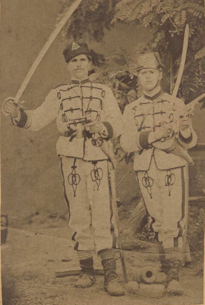 Rebels from the First Bulgarian Legion in Kladovo.